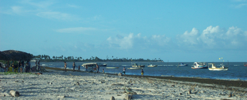 Pitimbue Beach